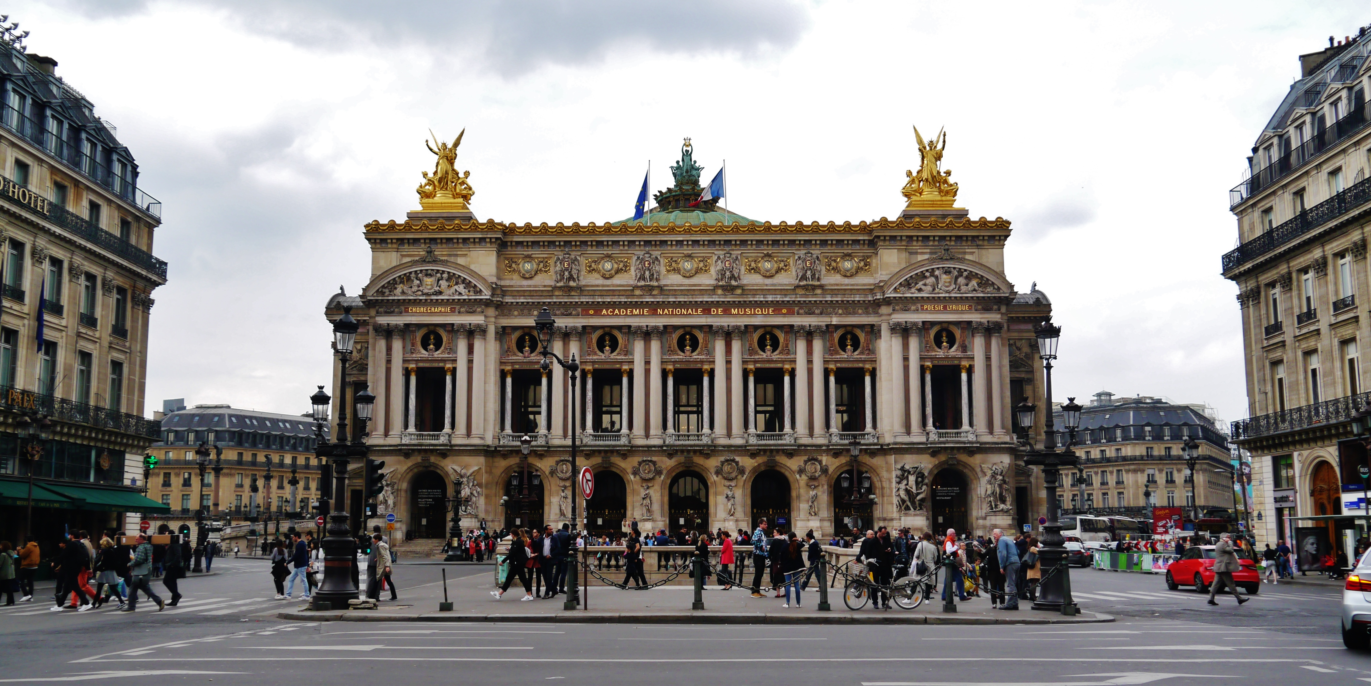 Facade of the Garnier Opera, Paris, Region of Île-de-France, France